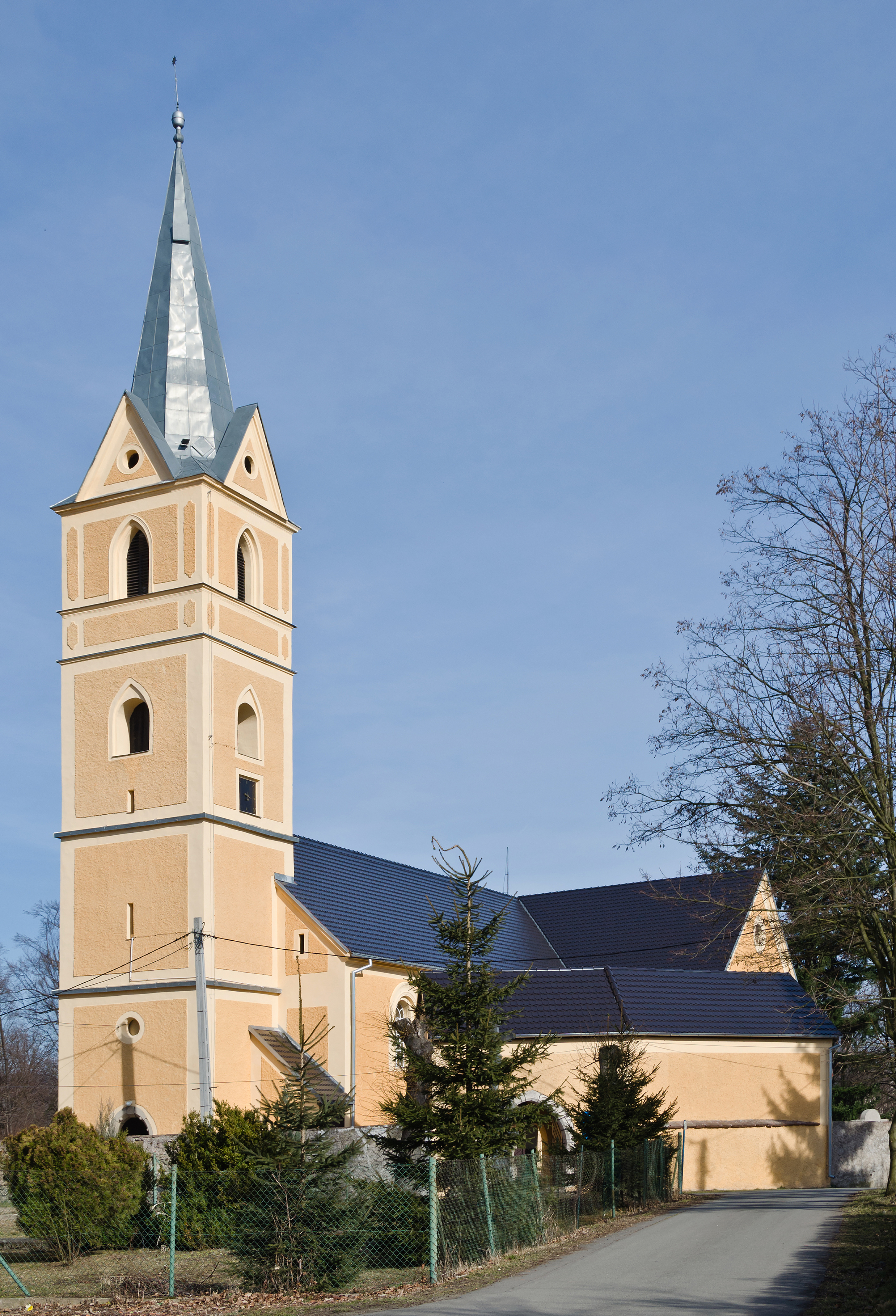 Saint John the Baptist church in Piszkowice